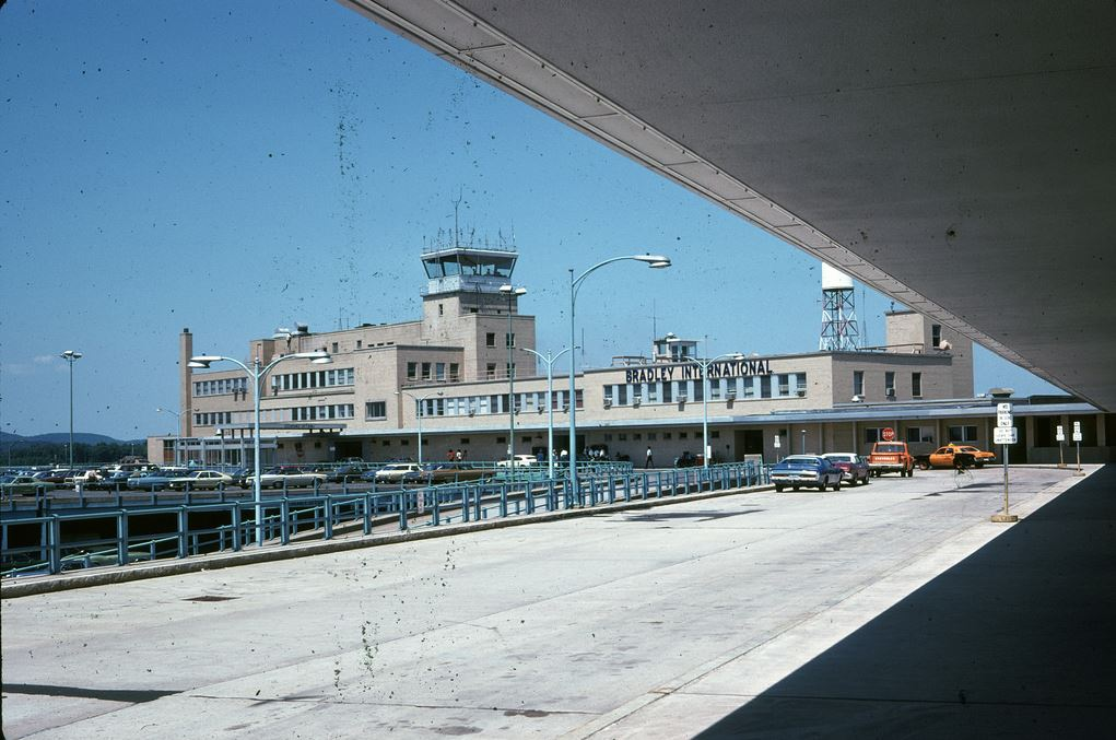 Photo by JFCiesla